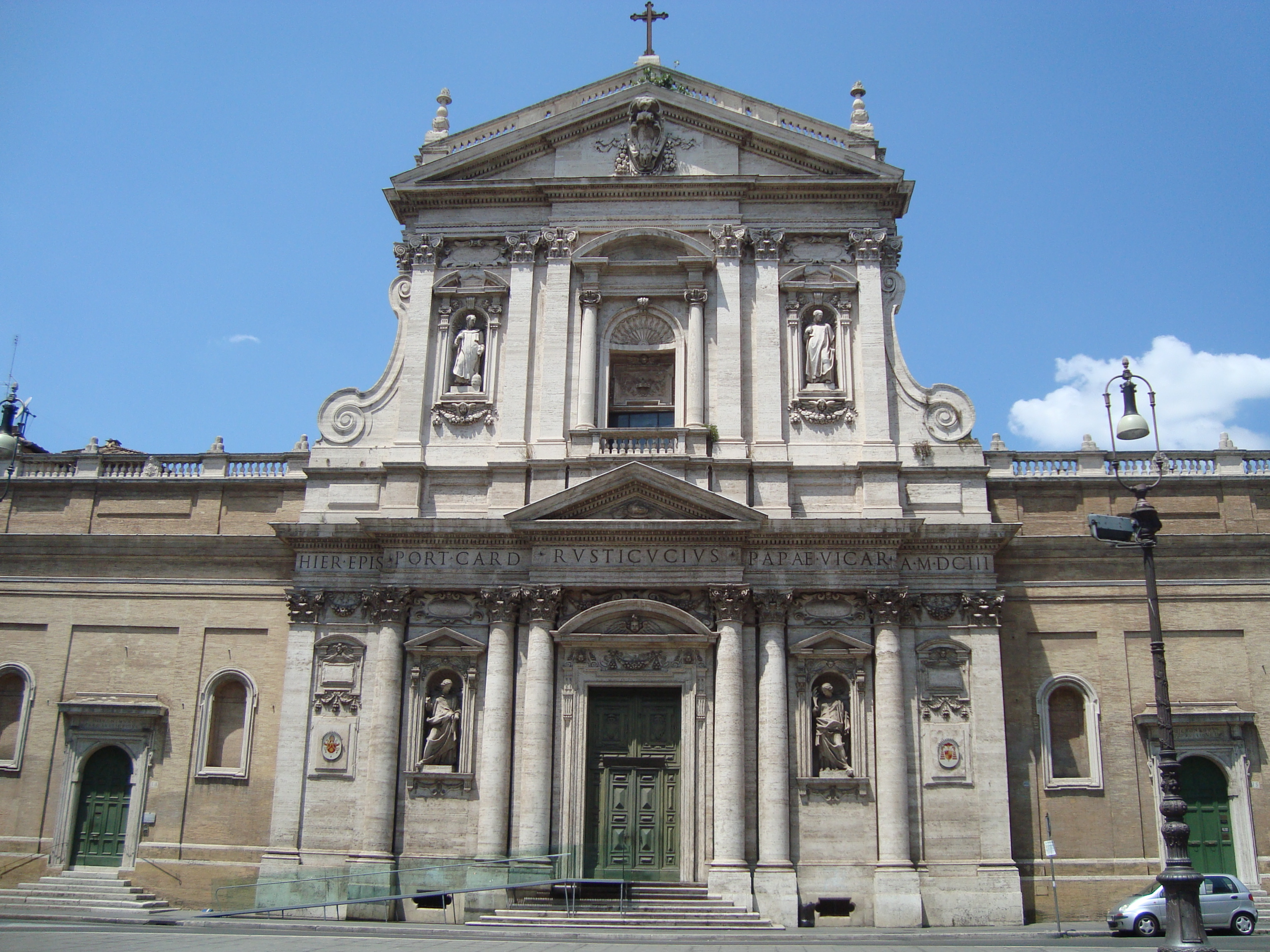 Church Santa Susanna alle Terme in Rome